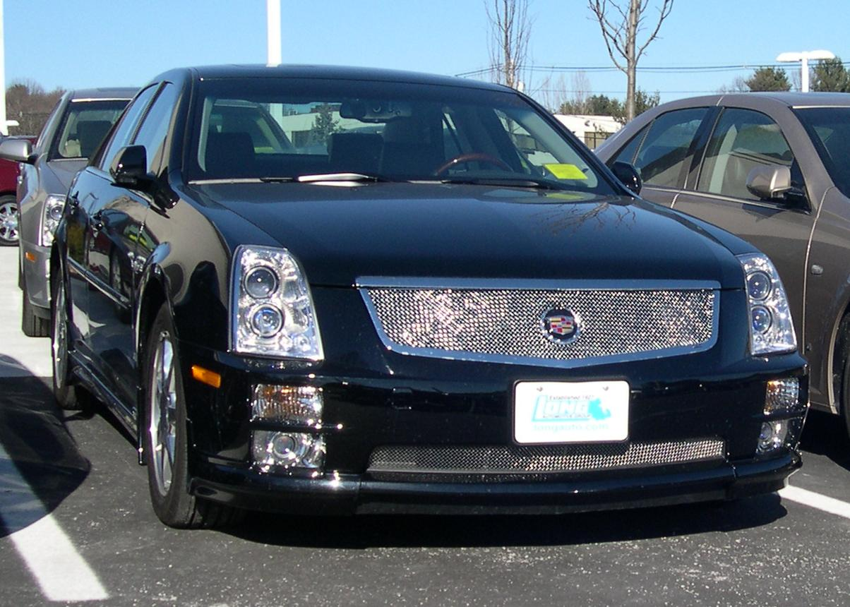 2006 Cadillac STS with dealer-installed mesh grille (not an STS-V)